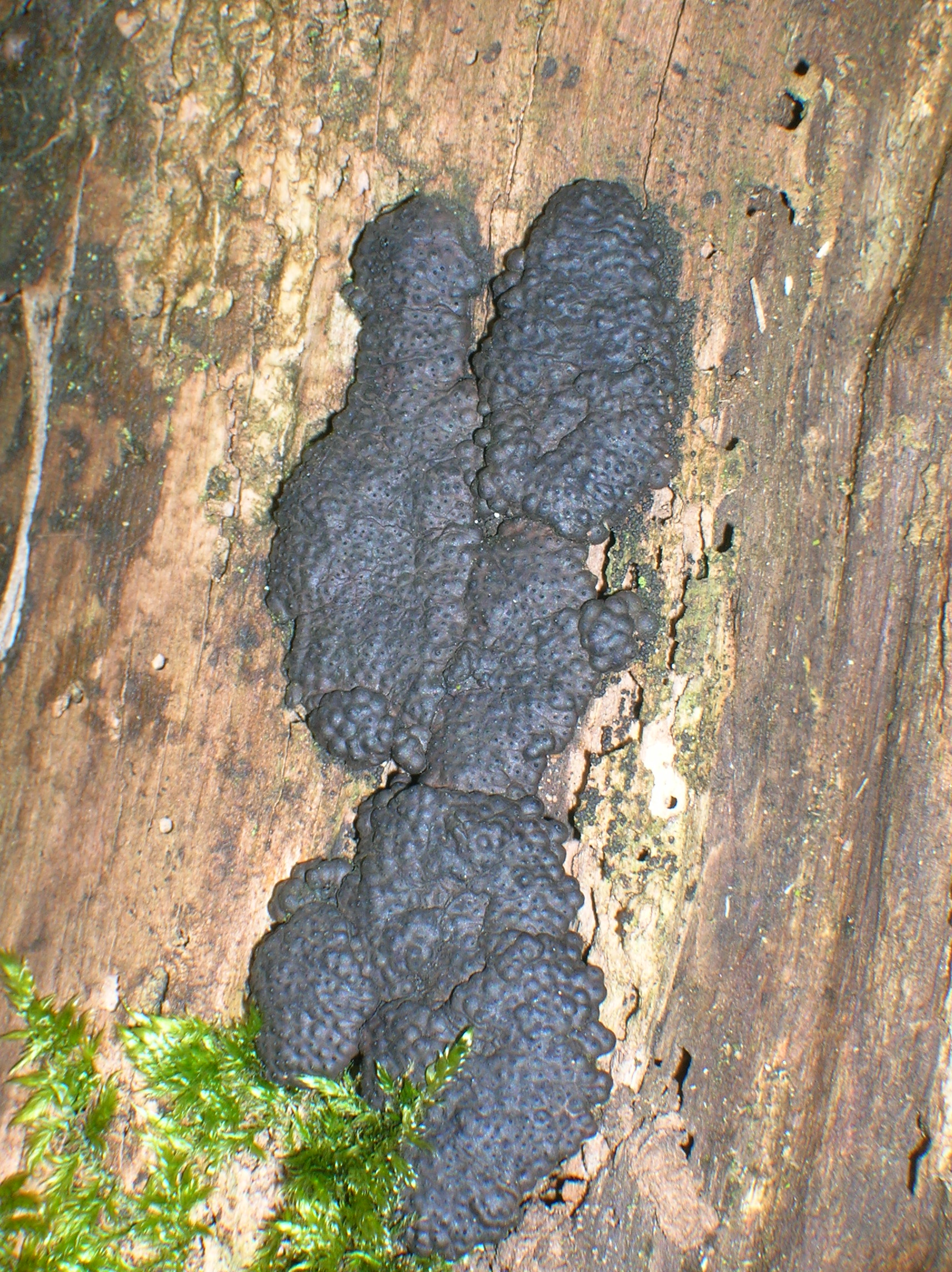 Detail of the Ascomycete, Biscogniauxia nummularia, named Beech Tarcrust. Spier's Old School Grounds, Beith, North Ayrshire, Scotland.